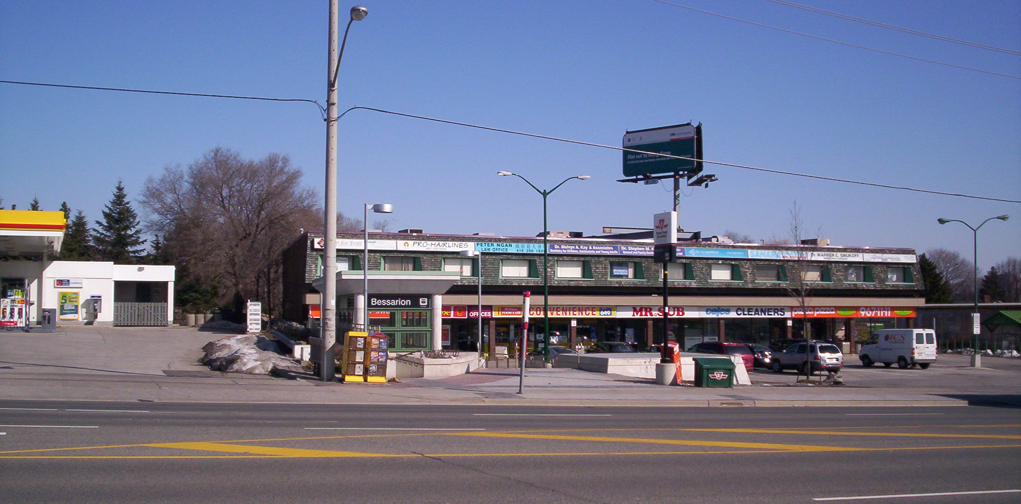 TTC Bessarion station north entrance building